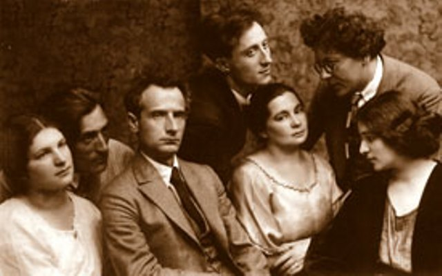 (L-R): Ester Shumyatsher-Hirshbein, Mendl Elkin, Peretz Hirshbein, Uri-Zvi Grinberg, Khane Kacyzne, Alter Katsizne and Esther Elkin